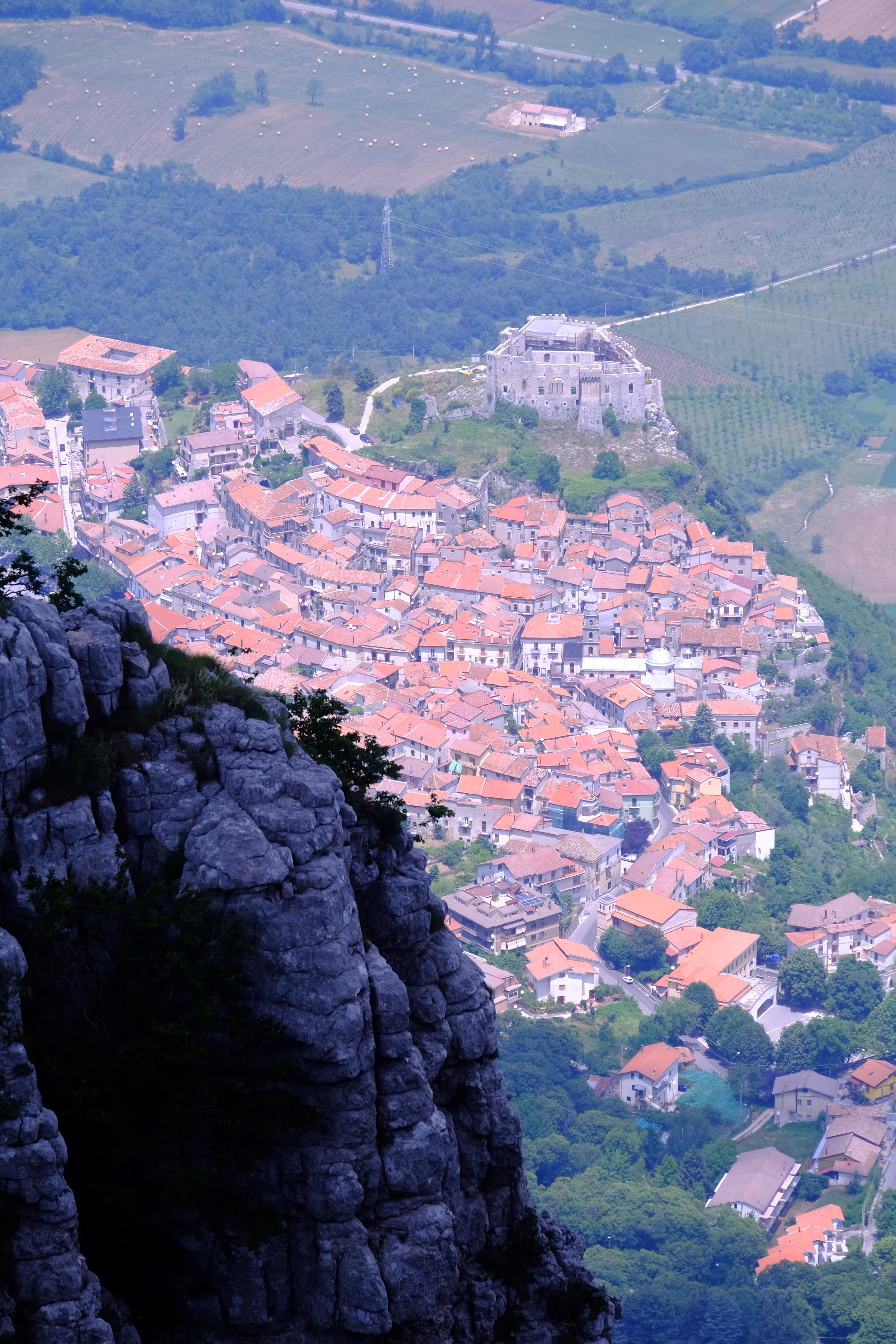 View of Sicignano degli Alburni from the top of the Alburni Mountains